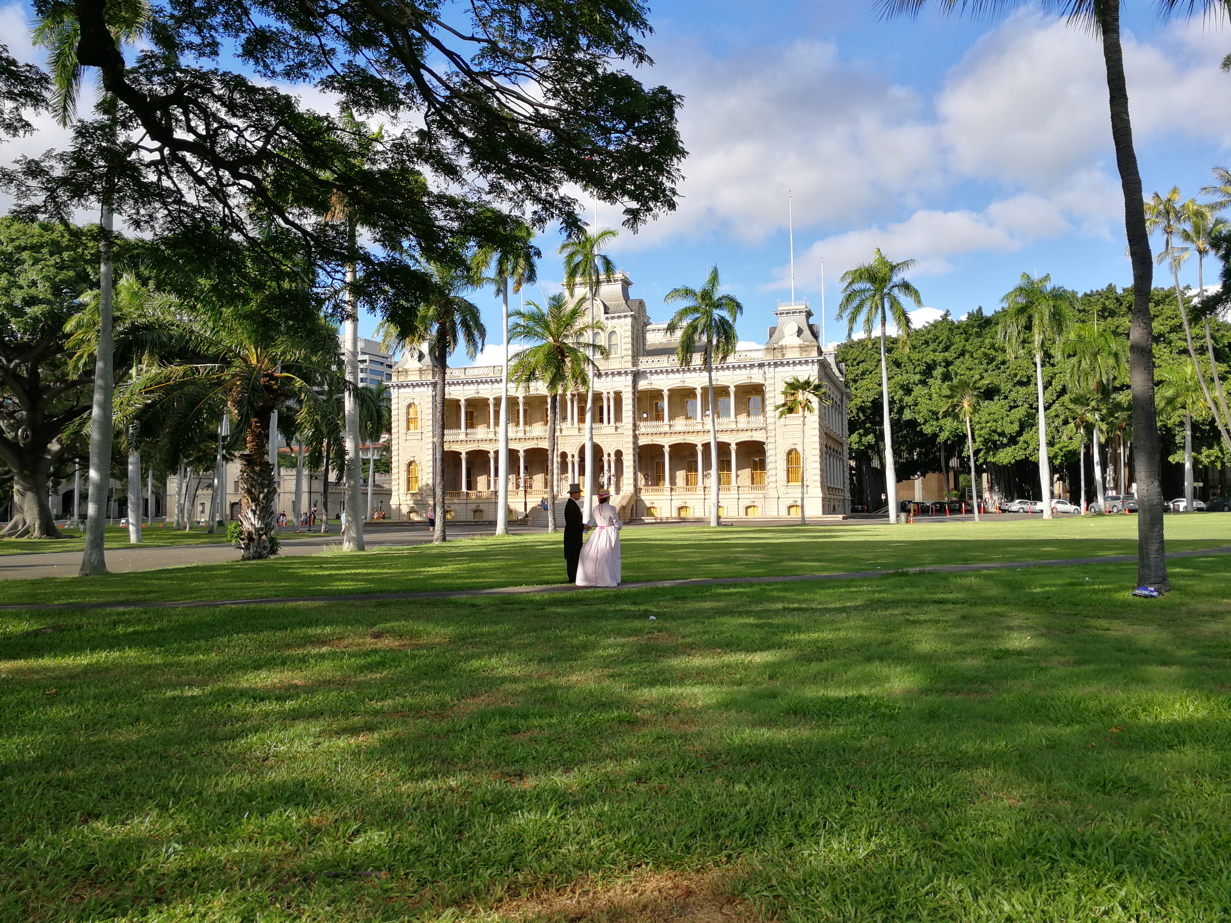 Hawaii Capital Historic District (Honolulu, Hawaii)